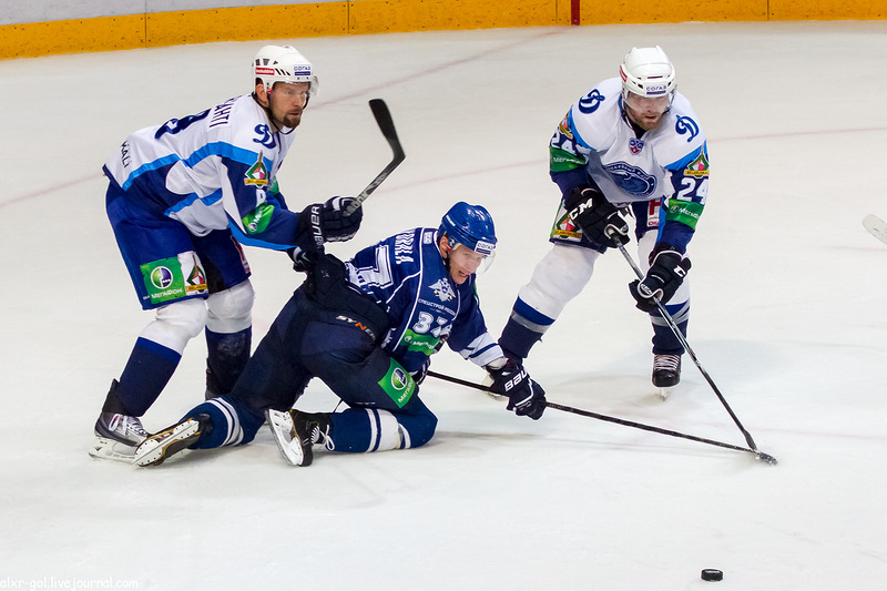 Amur Khabarovsk forward Mika Pyörälä (in blue) and Dynamo Minsk defencemen Jere Karalahti (from the left) and Jonas Frögren during KHL game on September 26, 2012.